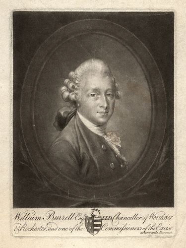 Sir William Burrell, 2nd Bt by Robert Laurie, after Richard Cosway mezzotint, 1789 or after 6 1/4 in. x 4 1/2 in. (158 mm x 114 mm) plate size; 7 3/4 in. x 5 3/4 in. (196 mm x 147 mm) paper size NPG D932